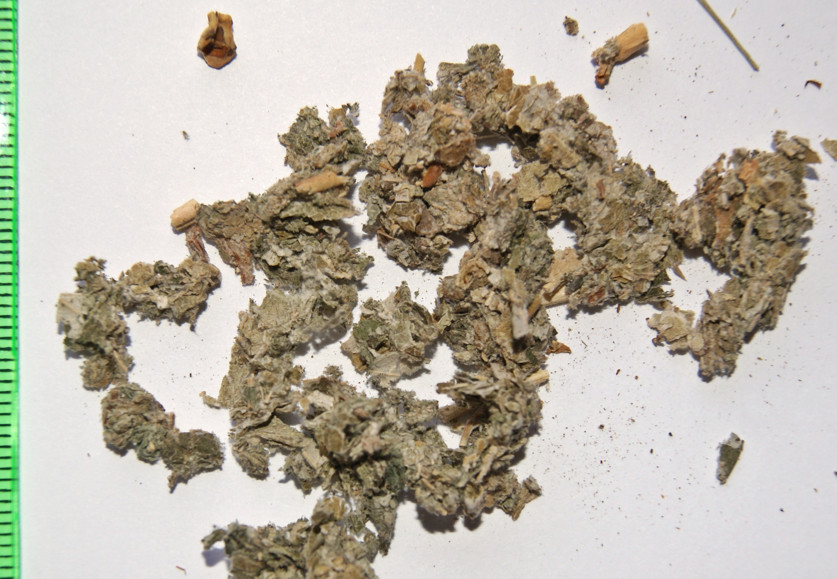 Rubus idaeus